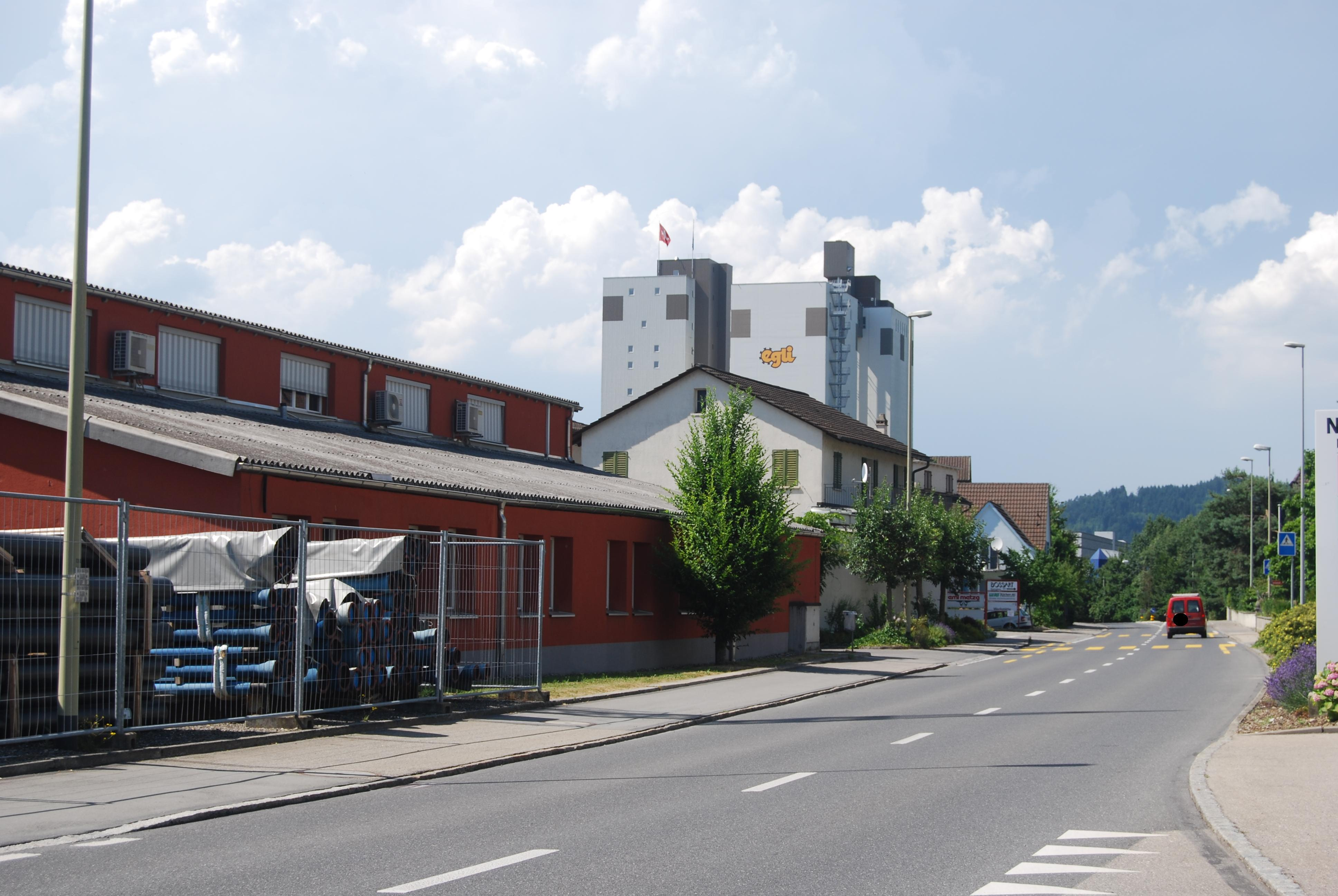 Nebikon, canton of Luzern, Switzerland